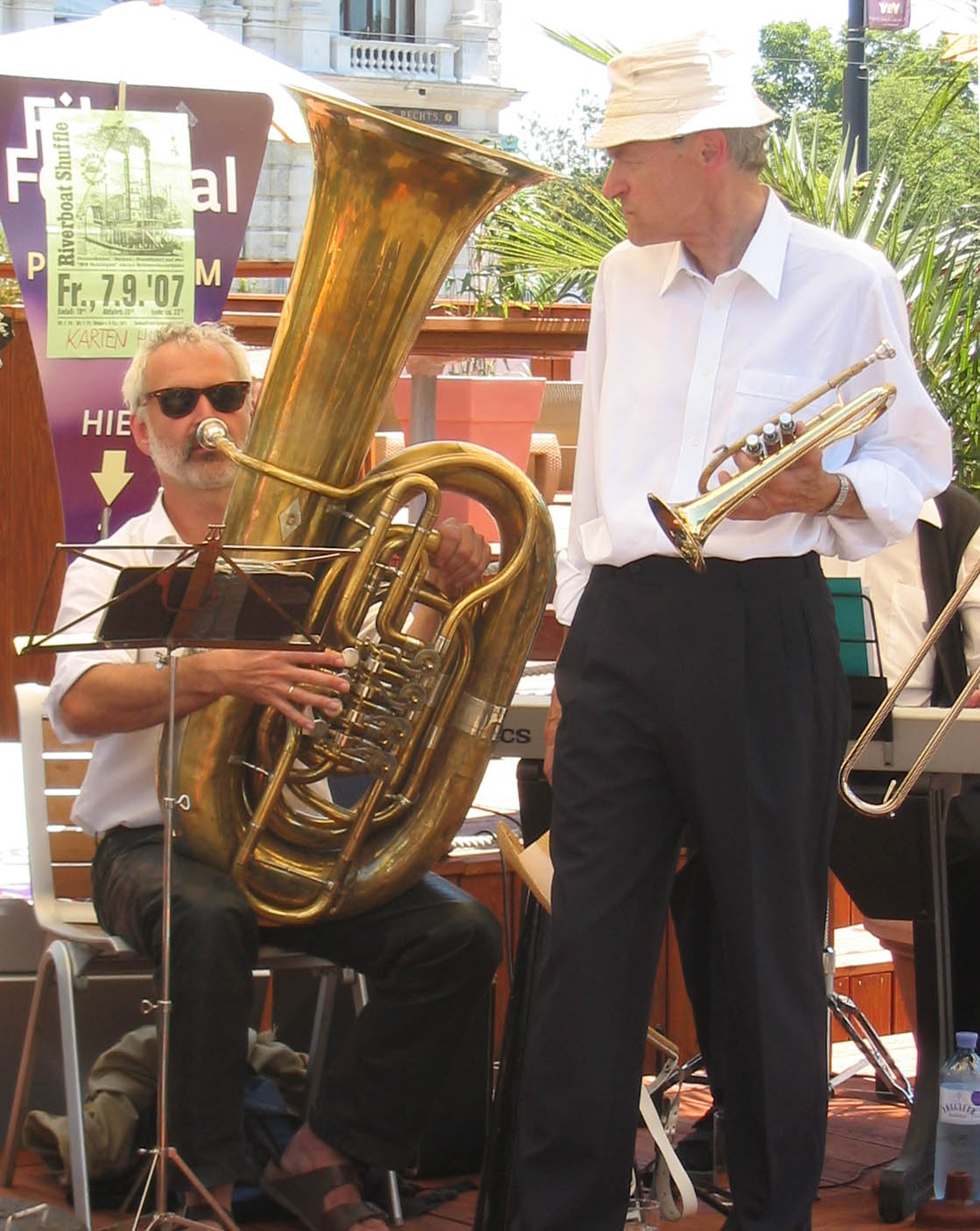 Members of Austrian jazz band Riverside Stompers (playing at the Vienna Rathausplatz). The picture shows a special tuba in Bb (de: "Kaiserbaß"), and a cornet.